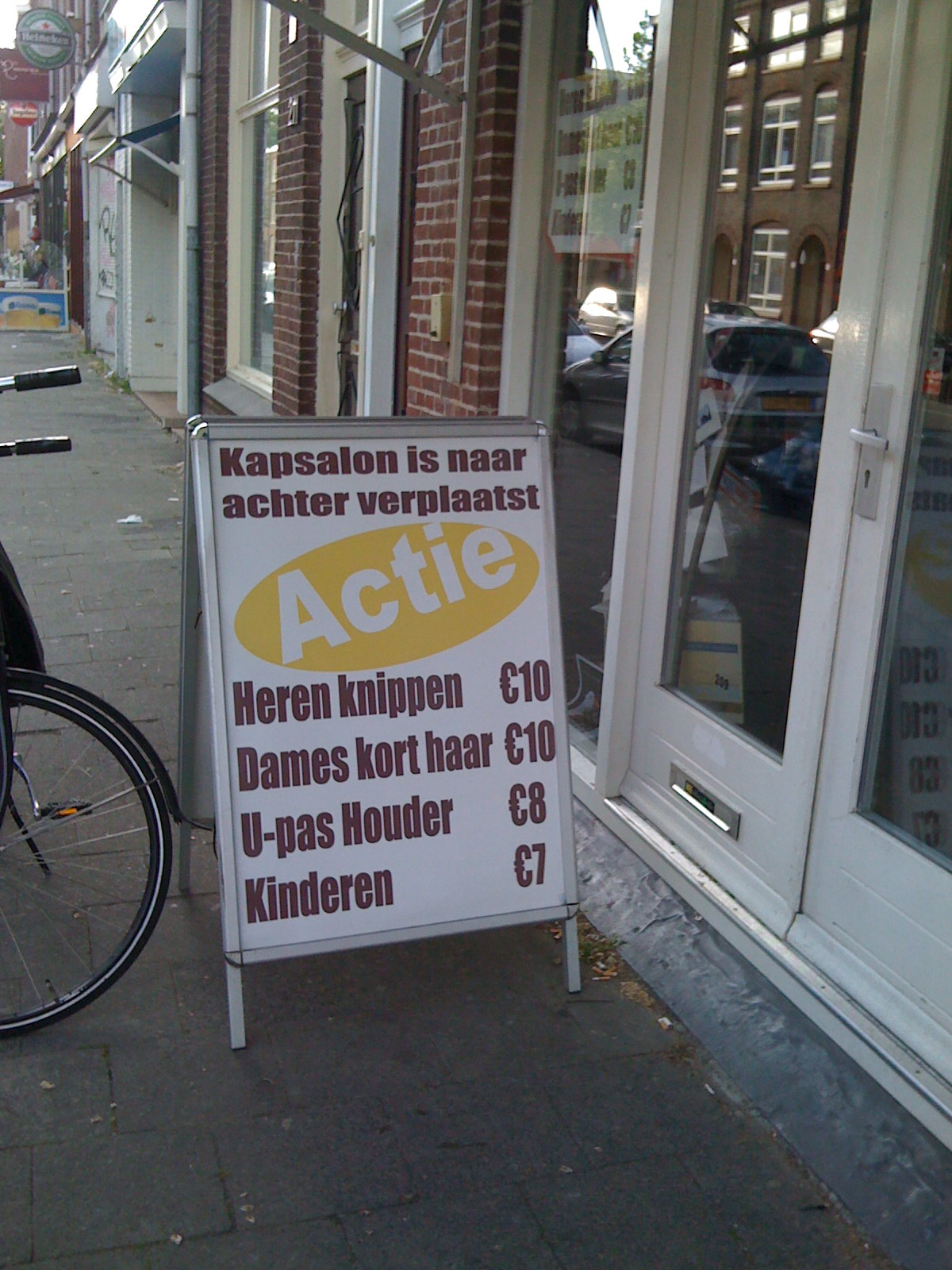 Kapsalon Tati, where hairdresser Nathaniël Gomes worked, who originally thought up the Kapsalon fast food dish.